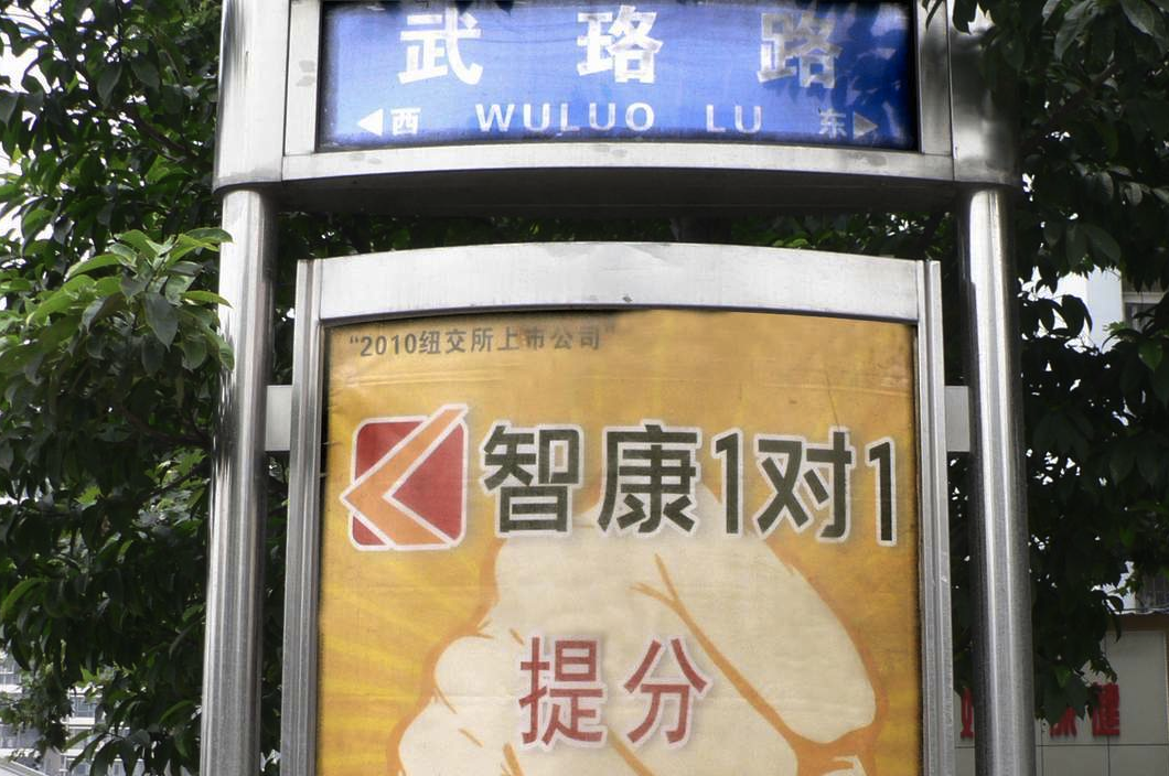 A street named Wuluo Lu in Wuhan, China